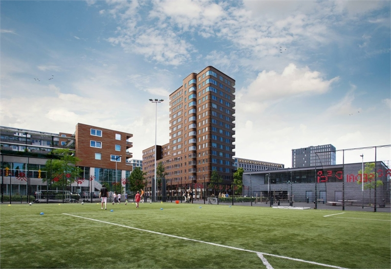 A future building named 'Hof van Spartaan'. Estimated completion in 2021.